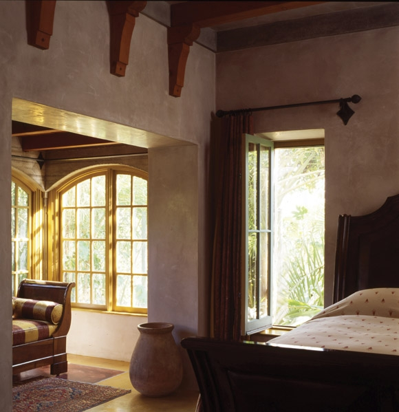 Example of a straw bale home in California. Built using the Spar Membrane Structure construction technique. Designed by Integrated Structures, Inc.